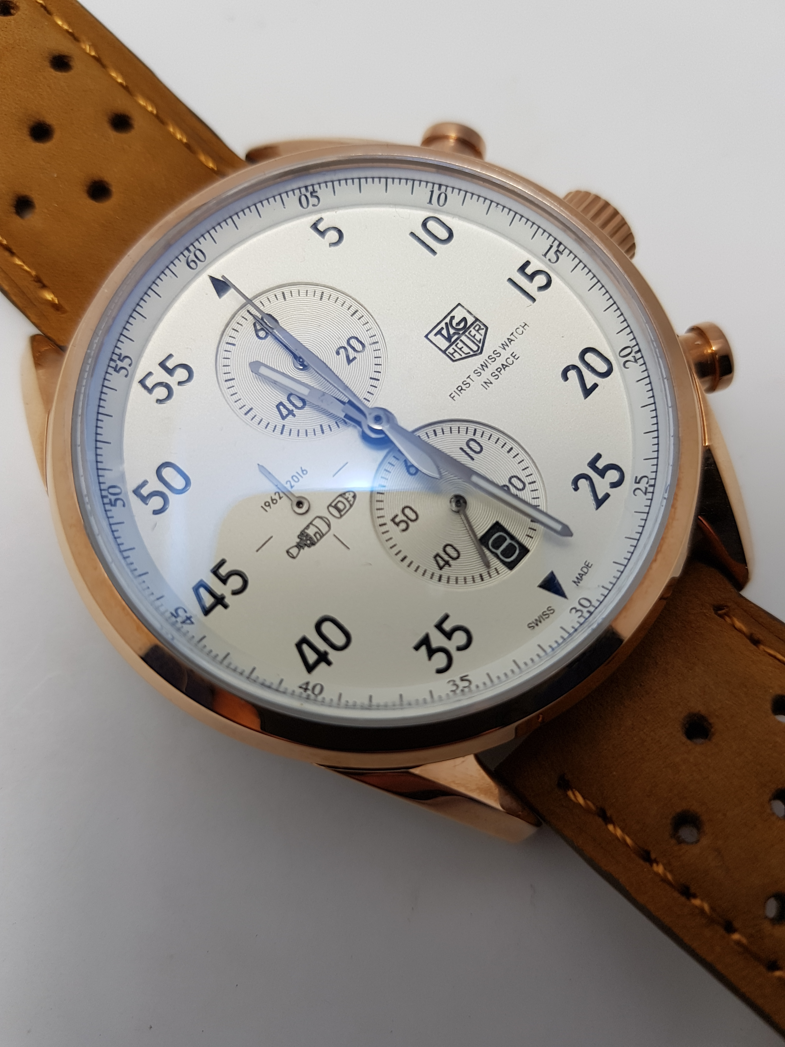 Tag Heuer Space X Watch